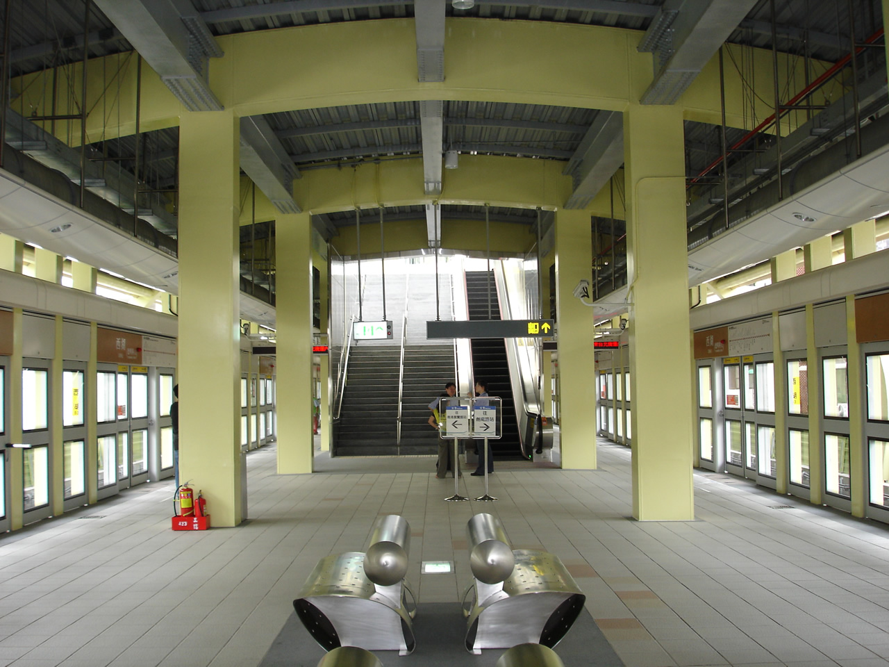 The platform of MRT Xihu Station.中文（台灣）: 台北捷運內湖線西湖站月台。